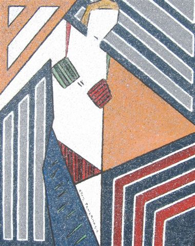 "Love as dizzy as a cathedral", by Erik Pevernagie, oil on canvas, 100 x 80 cm. When we are smitten, we await love to be “remontant” and blooming, repeatedly,” like remontant roses, with blossoms scenting through all the seasons of life. Passion and patience are to be good allies, though. Love can be a natural endowment, a present, or a gift. If it is not just a donation, it can be a divine talent. Since love is a silver bullet, it makes the unimaginable possible through the power of its inspiration. Women are strong kind. They invest in love so much more than men do. They have the power to add, patiently, stone by stone, all the elements they need for the cathedral of love and emotion. However, they may forget to look down sometimes to make sure they can stand the height. Love is hope and expectation. If many want to pencil it in, some don’t dare to ink it in, though, because love may also mean mystery and enigma. The vagaries of love with all its unpredictable and capricious meanders may be a hurdle in keeping life on an even keel. Rational thinking and irrational feeling don’t always get along very well. By squirming out of our dungeon of indifference and wriggling from our self-centered vault of unawareness, love can conjure up an aura of mental opulence and an inkling of infinity. Emotional illiterates, who don’t recognize the sound of a broken heart, will never be capable of hearing the subtle vibrations of love reverberating through the rustling flora of life. Phenomenon: Love and women Factual starting point: Woman